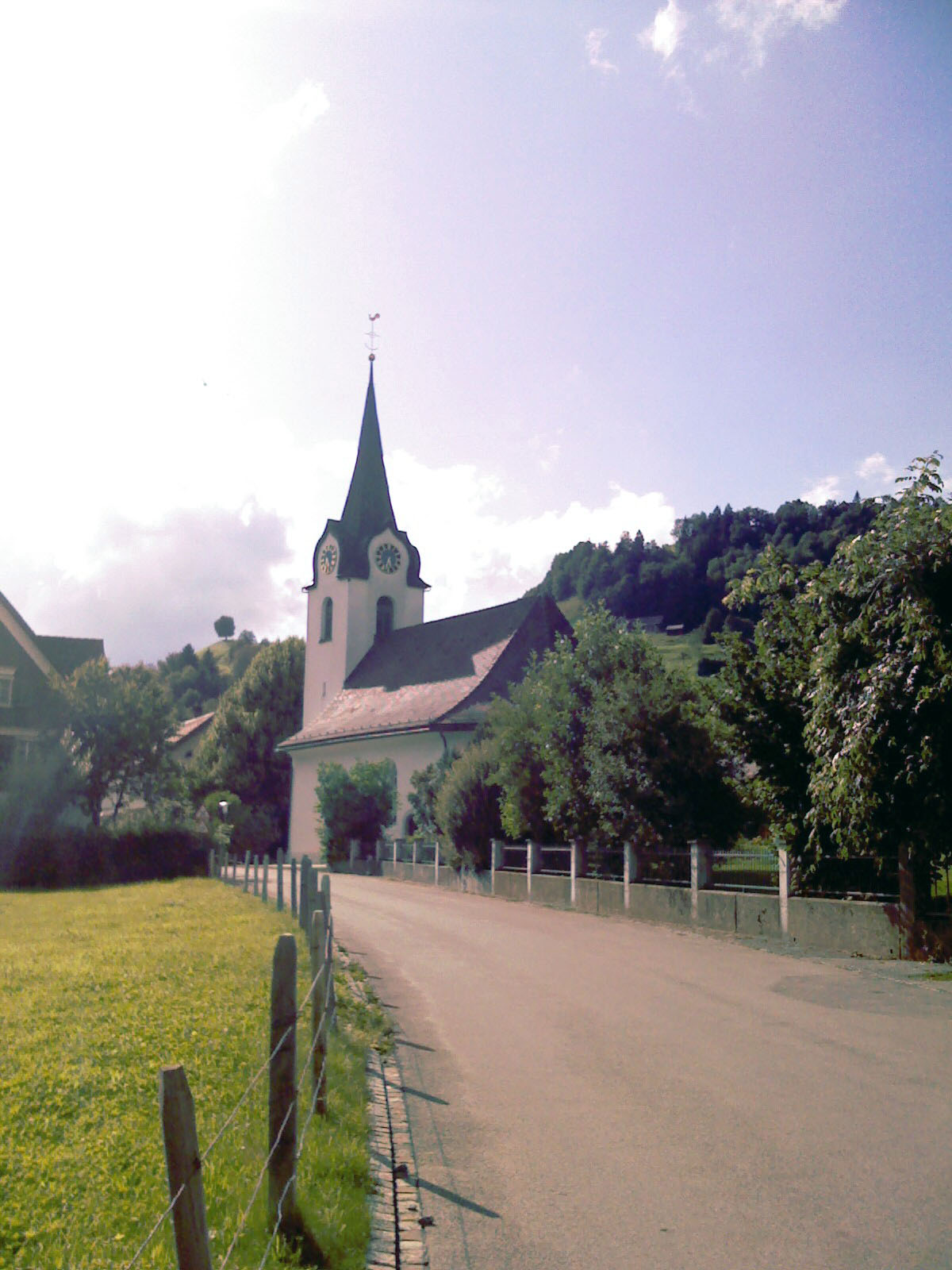 Church of Ennetbühl, municipality Nesslau-Krummenau, canton of St. Gallen, SwitzerlandEsperanto: Preĝejo de Ennetbühl, komunumo Nesslau-Krummenau, Kantono Sankt-Galo, Svislando